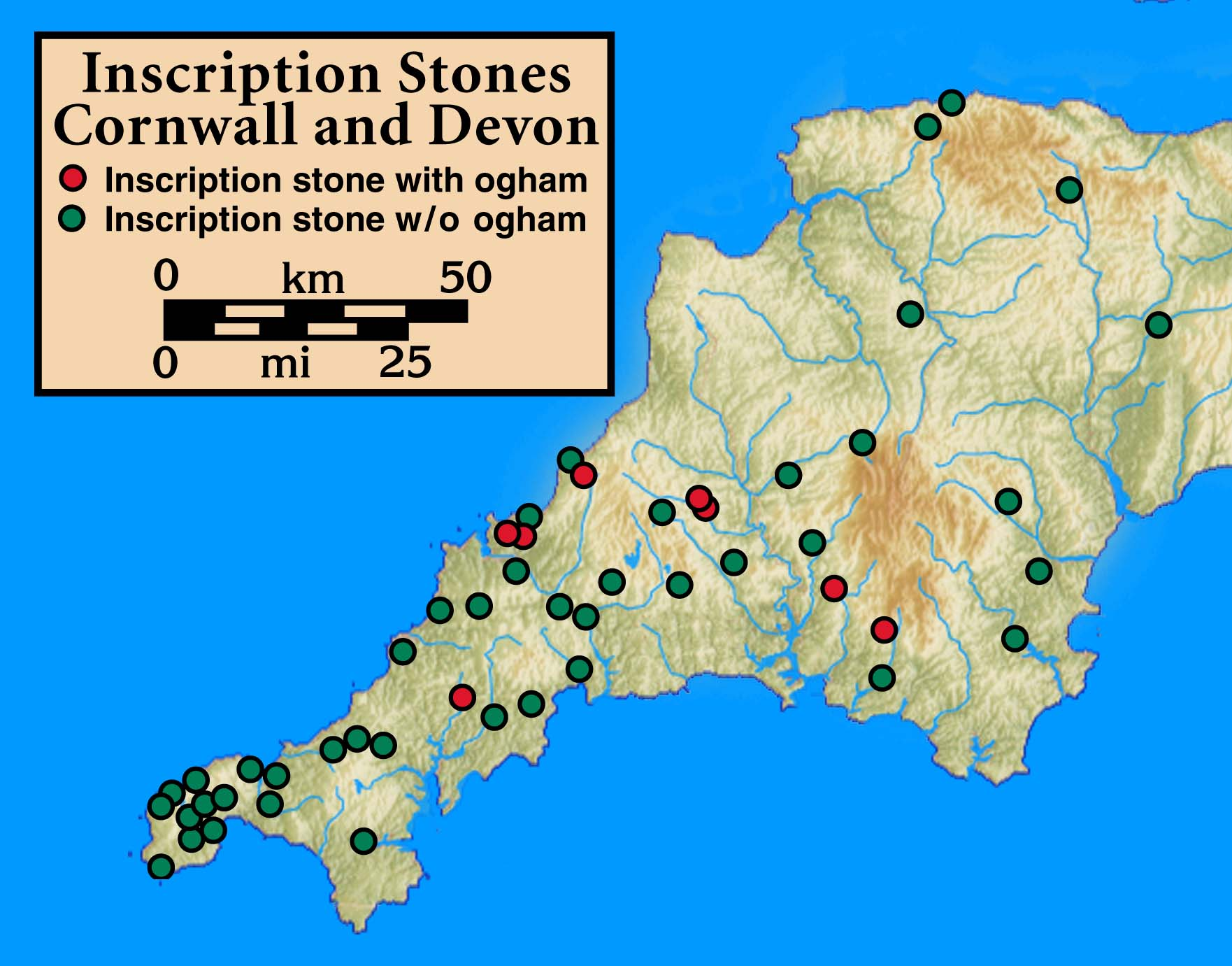 Stone Inscriptions in Cornwall and Devon, with and w/o Ogham